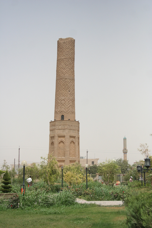 Mudhafaria Minaret at Minar Park in Arbil, Iraqi Kuristan, Iraq, August 2009